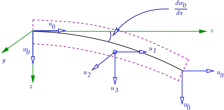 Bending of an Euler-Bernoulli beam.